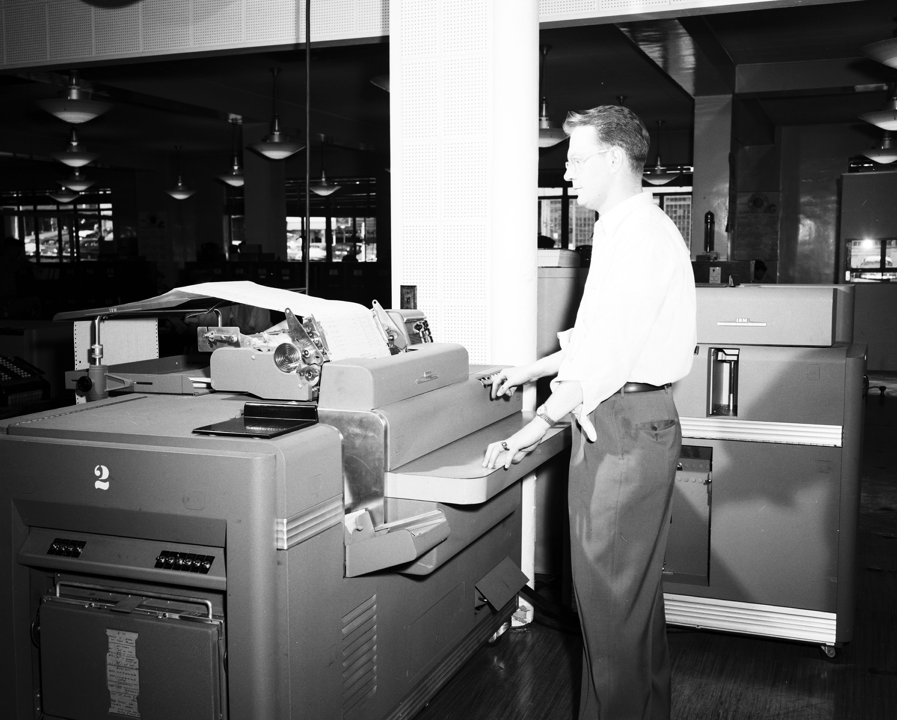 Seattle City Light worker with office machine, 1954. According to discussion on the Wikipedia reference desk, it's an accounting machine closely resembling the IBM 407, which was used as a component of a calculator system called an IBM CPC. More specifically, it could be an IBM 402, 403, 412, or 418 -- they were all essentially identical in outward appearance, as shown on this page. Item 78662, City Light Photographic Negatives (Record Series 1204-01), Seattle Municipal Archives.